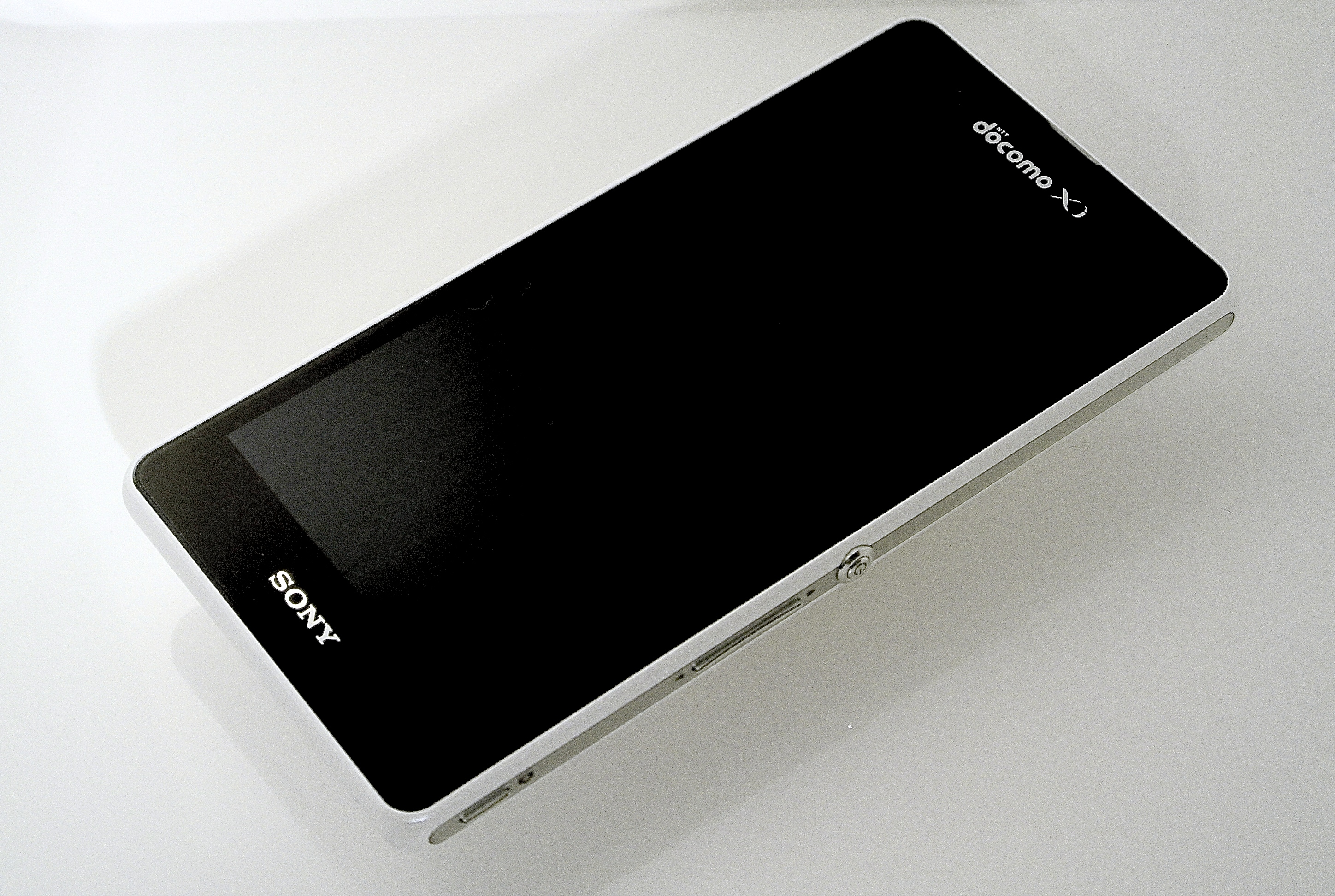 XPERIA A (This is one of the XPERIA ZR. Made for Japanese domestic market, As known as "docomo SO-04E"